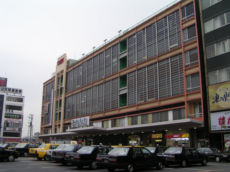 East Exit of Tsurumi Station